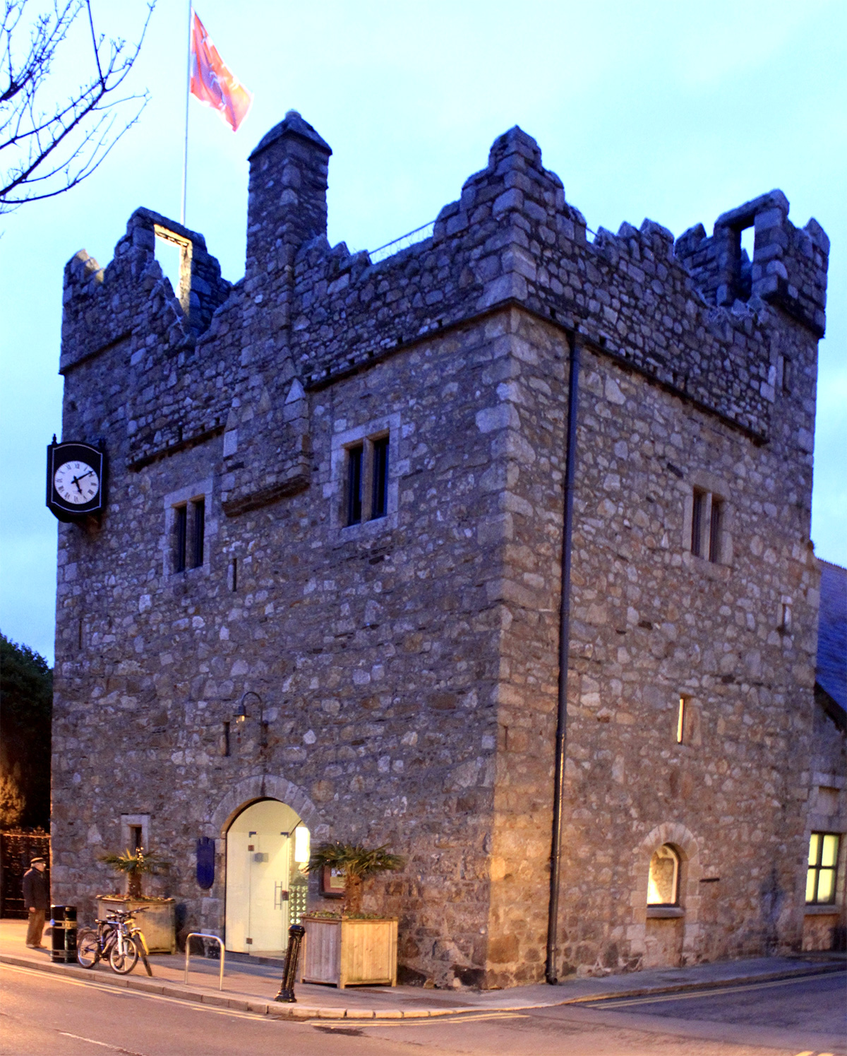 Norman Castle in Dalkey, Ireland